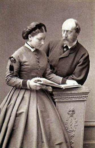 Prince Christian of Schleswig-Holstein with his fiancee, Princess Helena of the United Kingdom